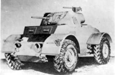 T17E1 armored car. The vehicle shown is the original prototype.